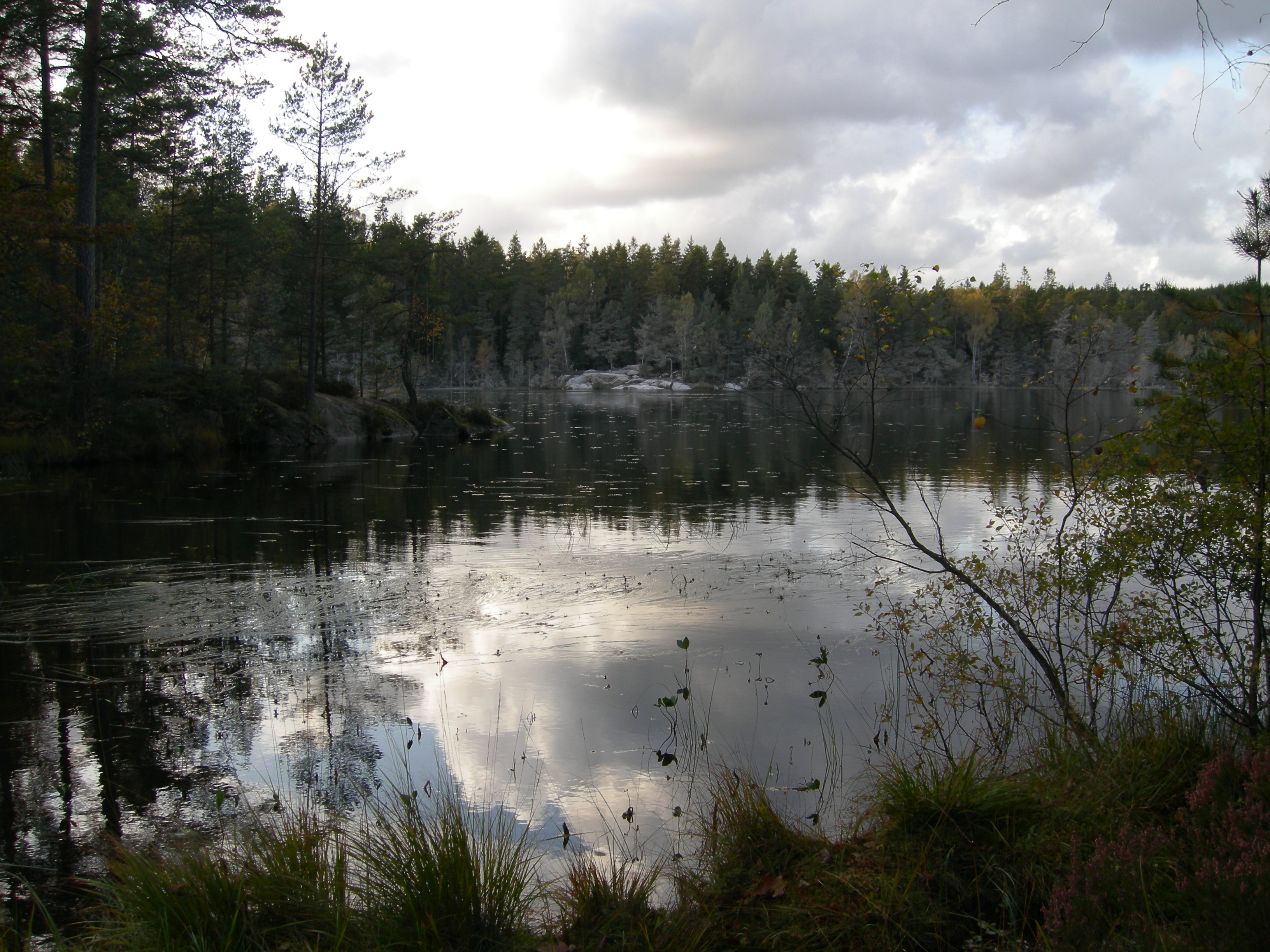 Häcksjön, Västra Götaland, Sweden